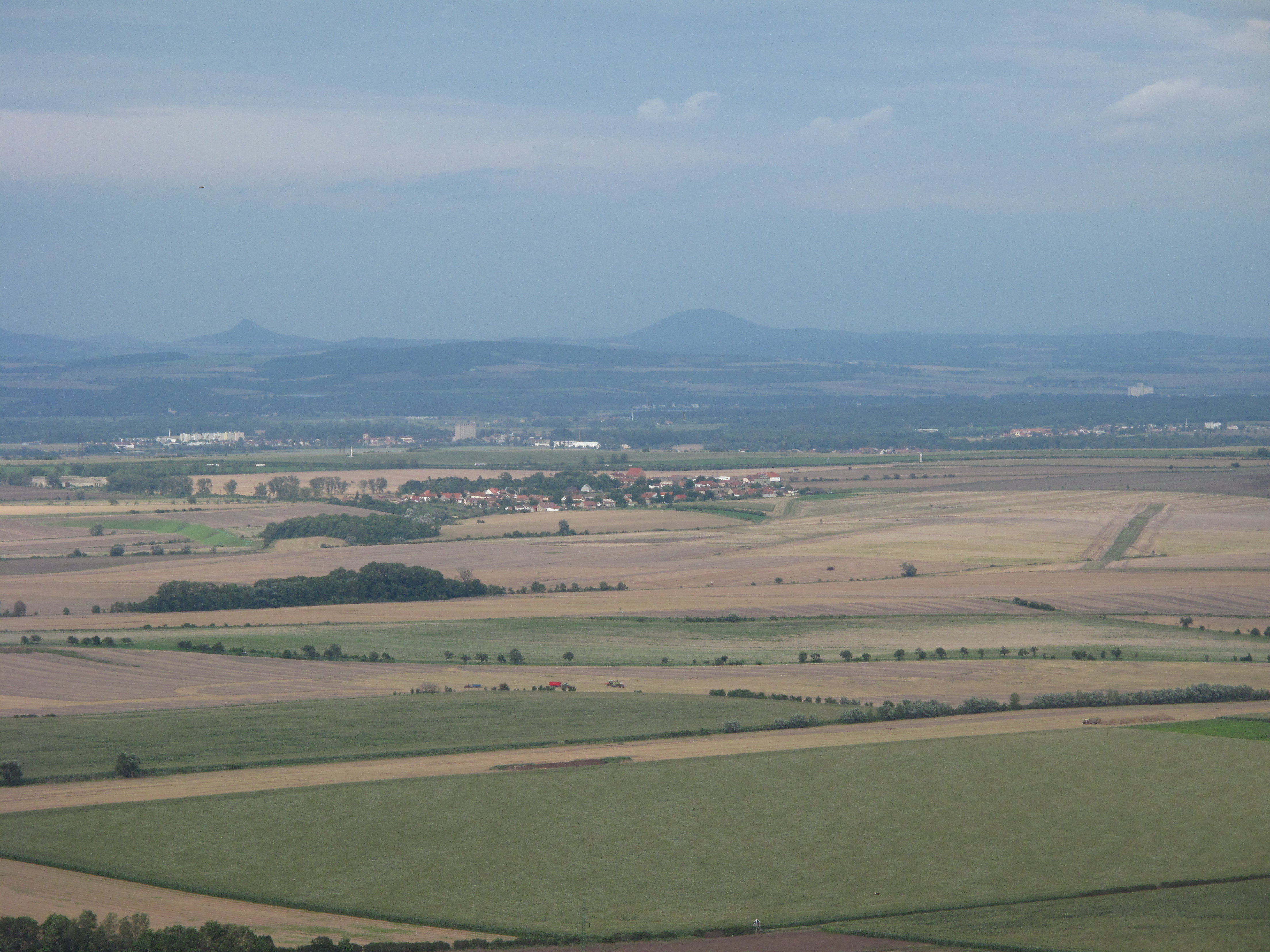 Vrbičany village as seen from Hazmburk Castle (ruin), Litoměřice District, Czech Republic.